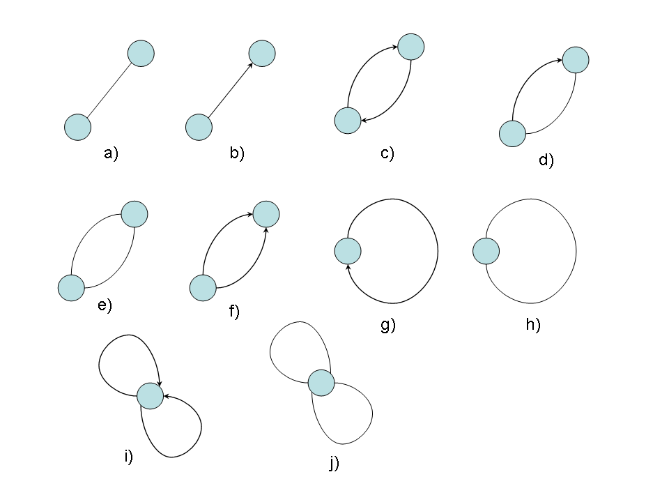 Graph edge types